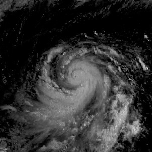 Typhoon Robyn on August 7, 1993